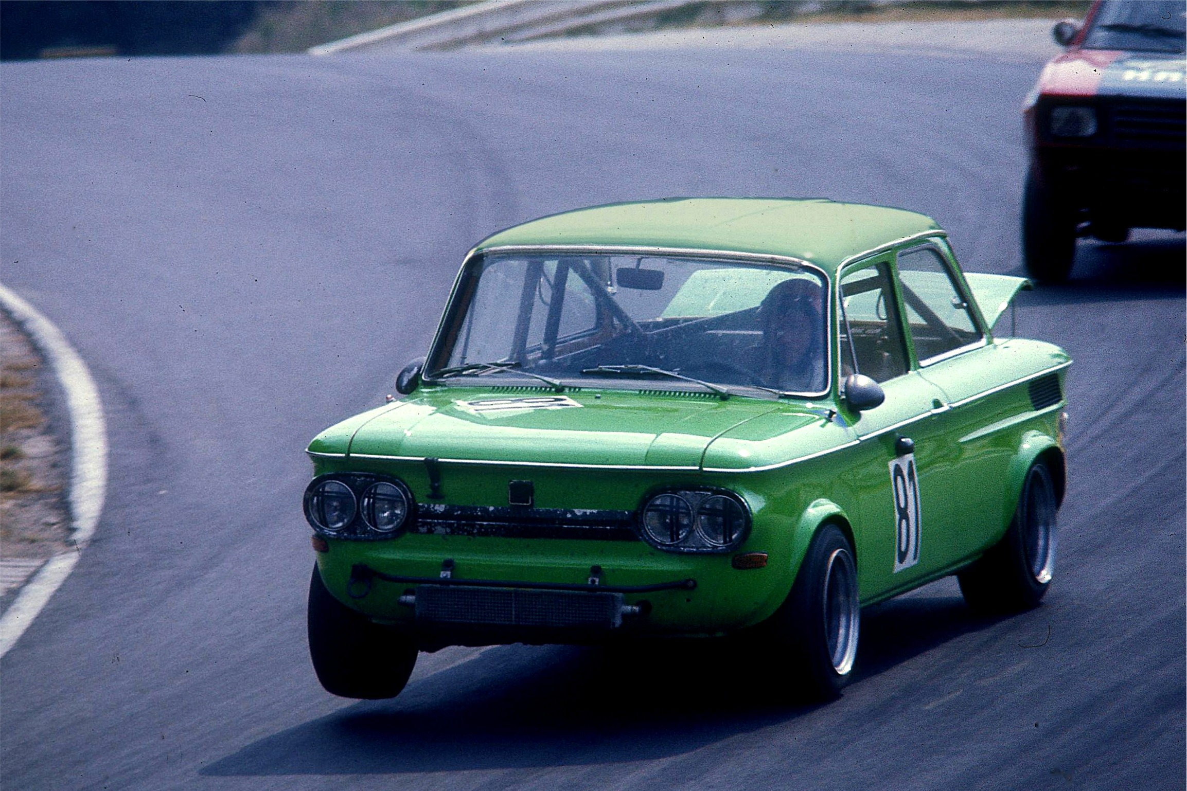 NSU TTS 1976 at the Nürburgring.